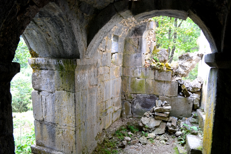 Shoreti Monastery Interior 1